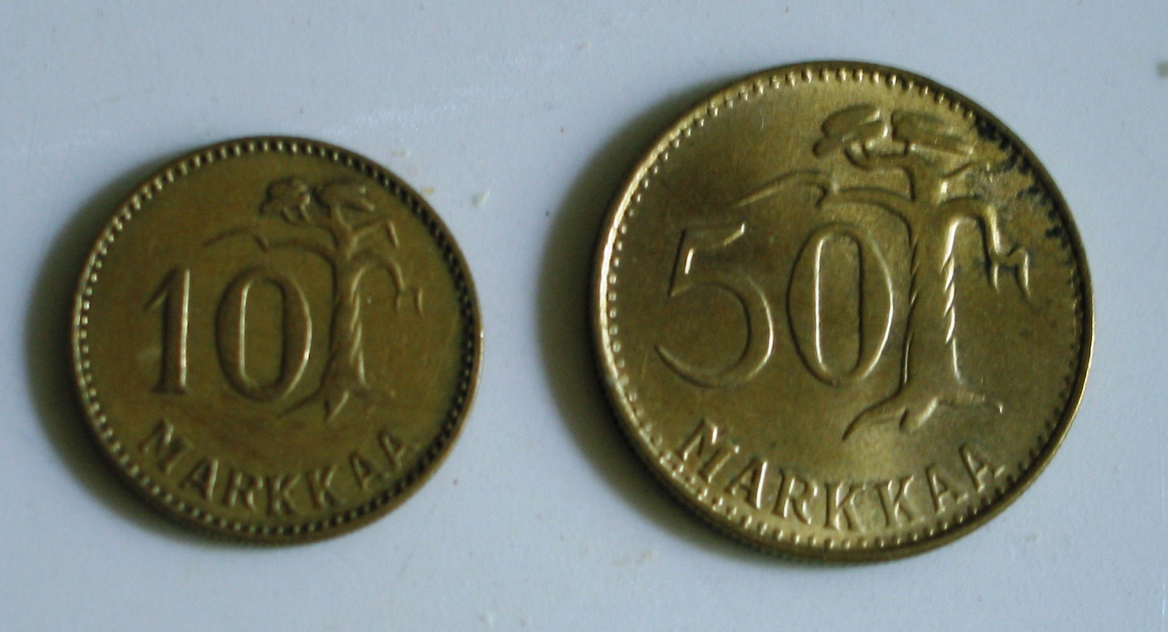 Coins depicting a pine tree in Koisjärvi, Finland. Frontside. 10 mark year 1954, 50 mark year 1953